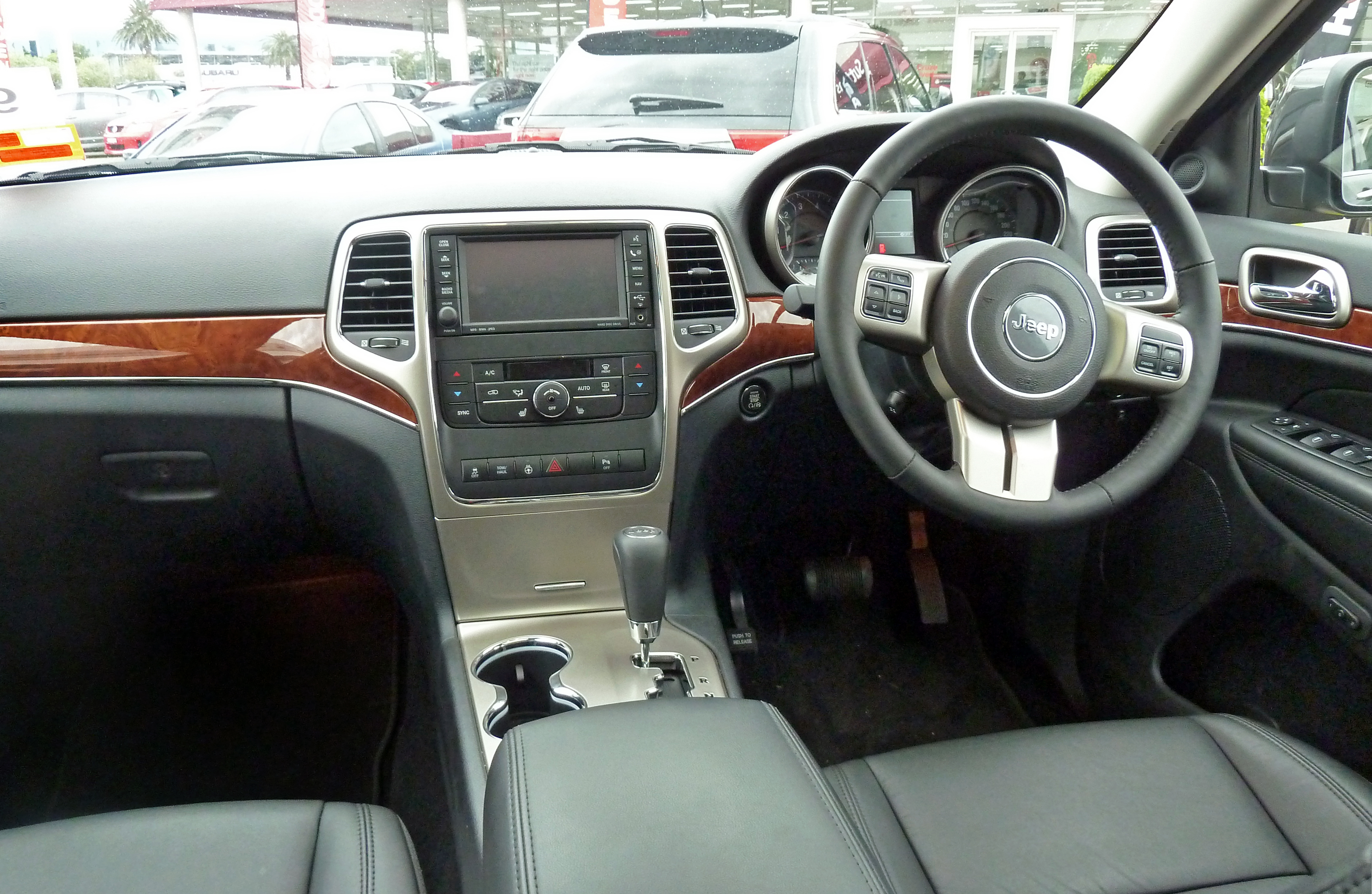 2011 Jeep Grand Cherokee (WK2 MY11) Limited 4WD wagon. Photographed at Suttons City Chrysler Jeep Dodge, Rosebery, New South Wales, Australia.